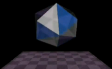 demo effect from Future Crew's 1993 demoscene demo Second Reality